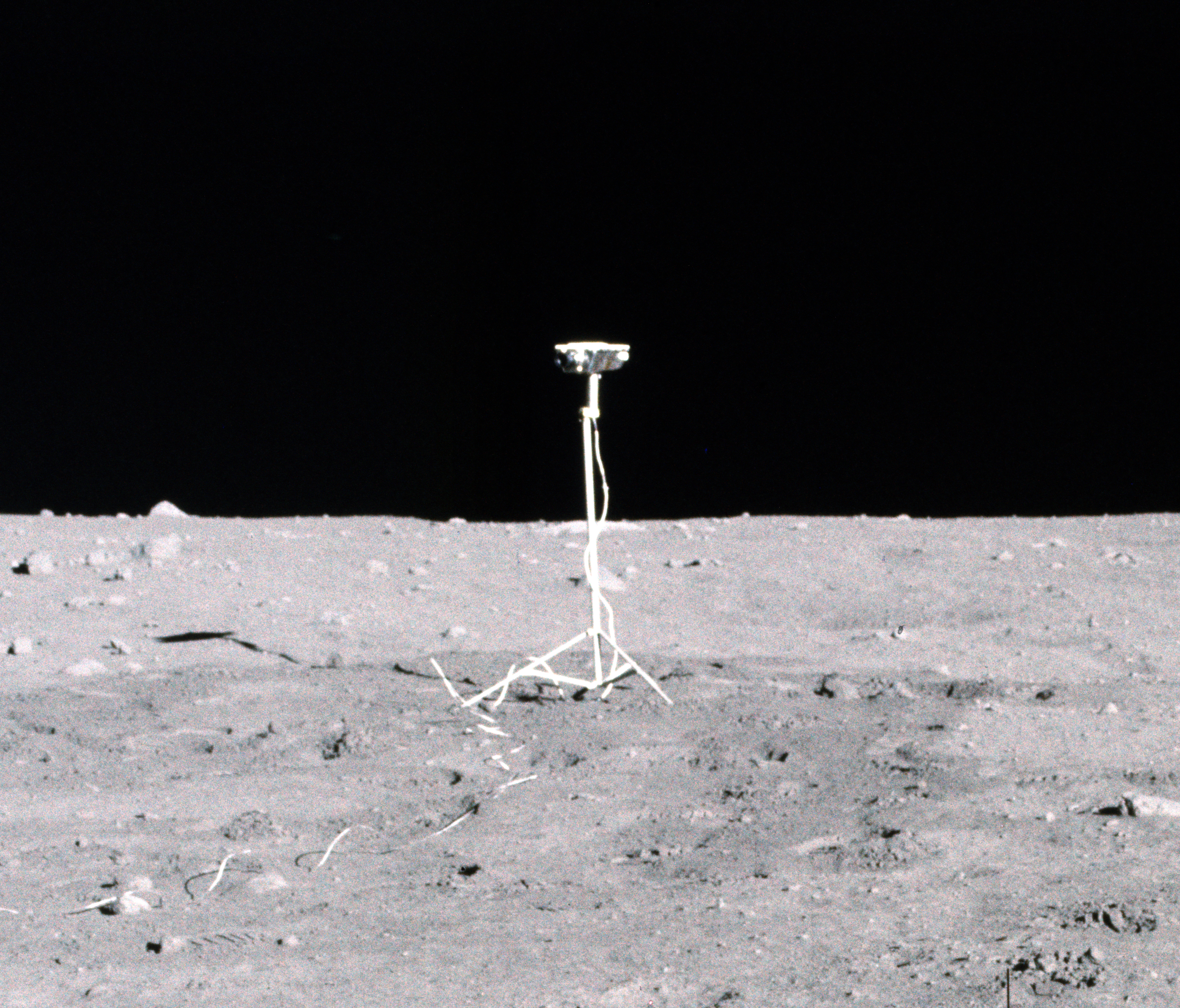 The television camera that was used on the moon during Apollo 11.